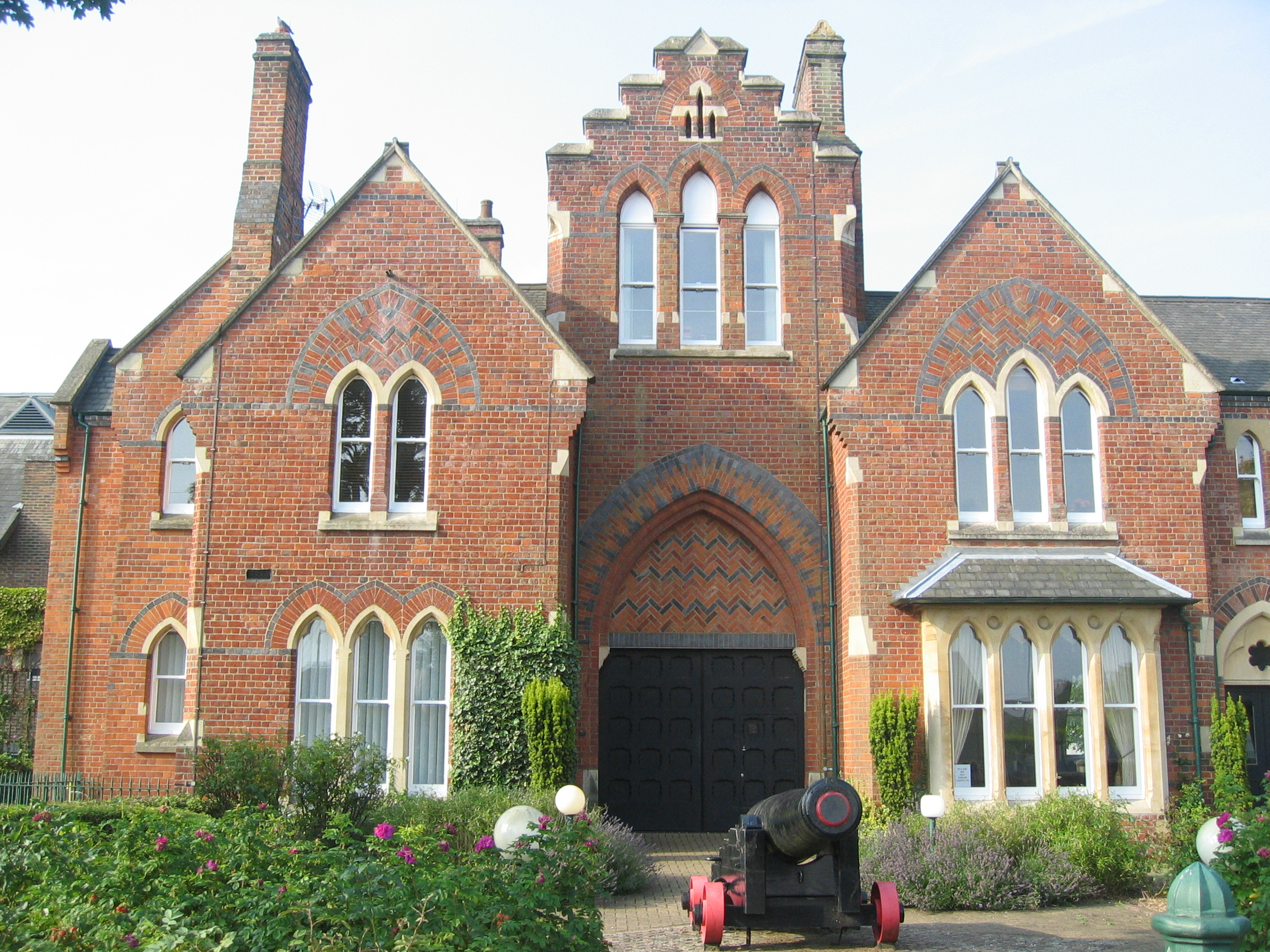 Register Office, Grimston Road, St Alban's, Hertfordshire. Built in 1867 as the gatehouse of the St Alban's Prison. Featured in the opening of the TV series Porridge as the gatehouse of HM Prison Slade.